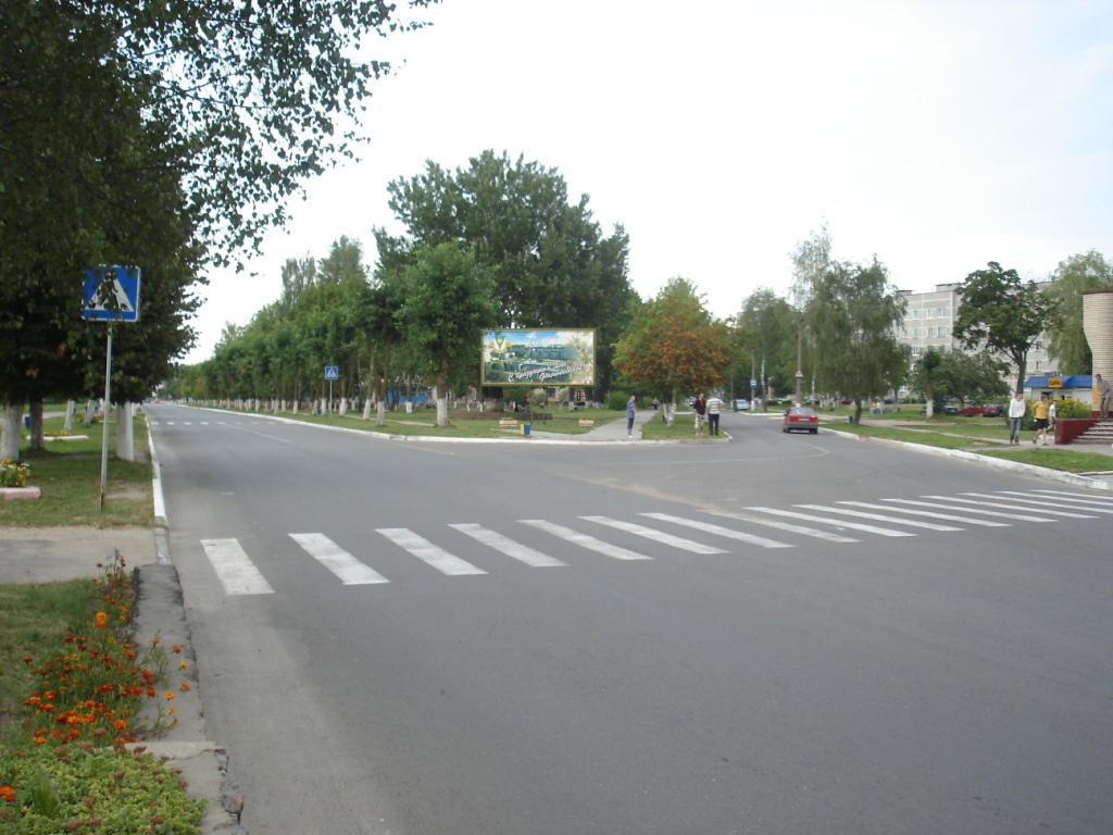 Komsomolskaya str. and Yakuba Kolasa str. crossroads and Central square between them